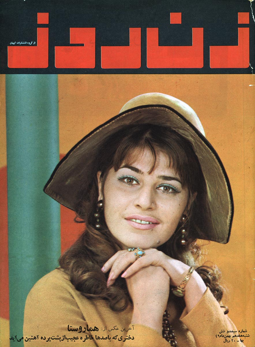 Zan-e Rooz cover, Issue 306 - 6 February 1971